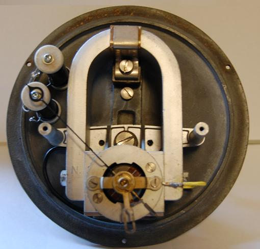 voltmeter